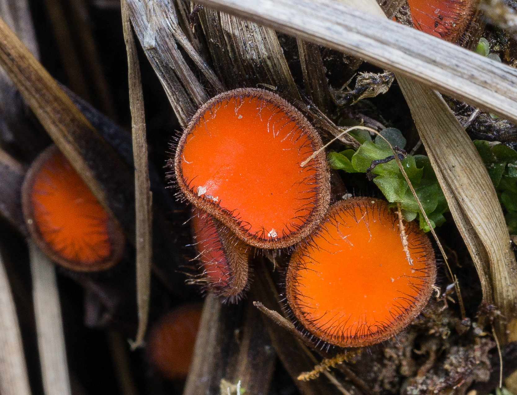 Fruit bodies of the apothecial fungus Scutellinia umbrorum (Fr.) Lambotte; photographed in Indian Henry Campground, Mount Hood National Forest, Clackamas Co., Oregon, USA.